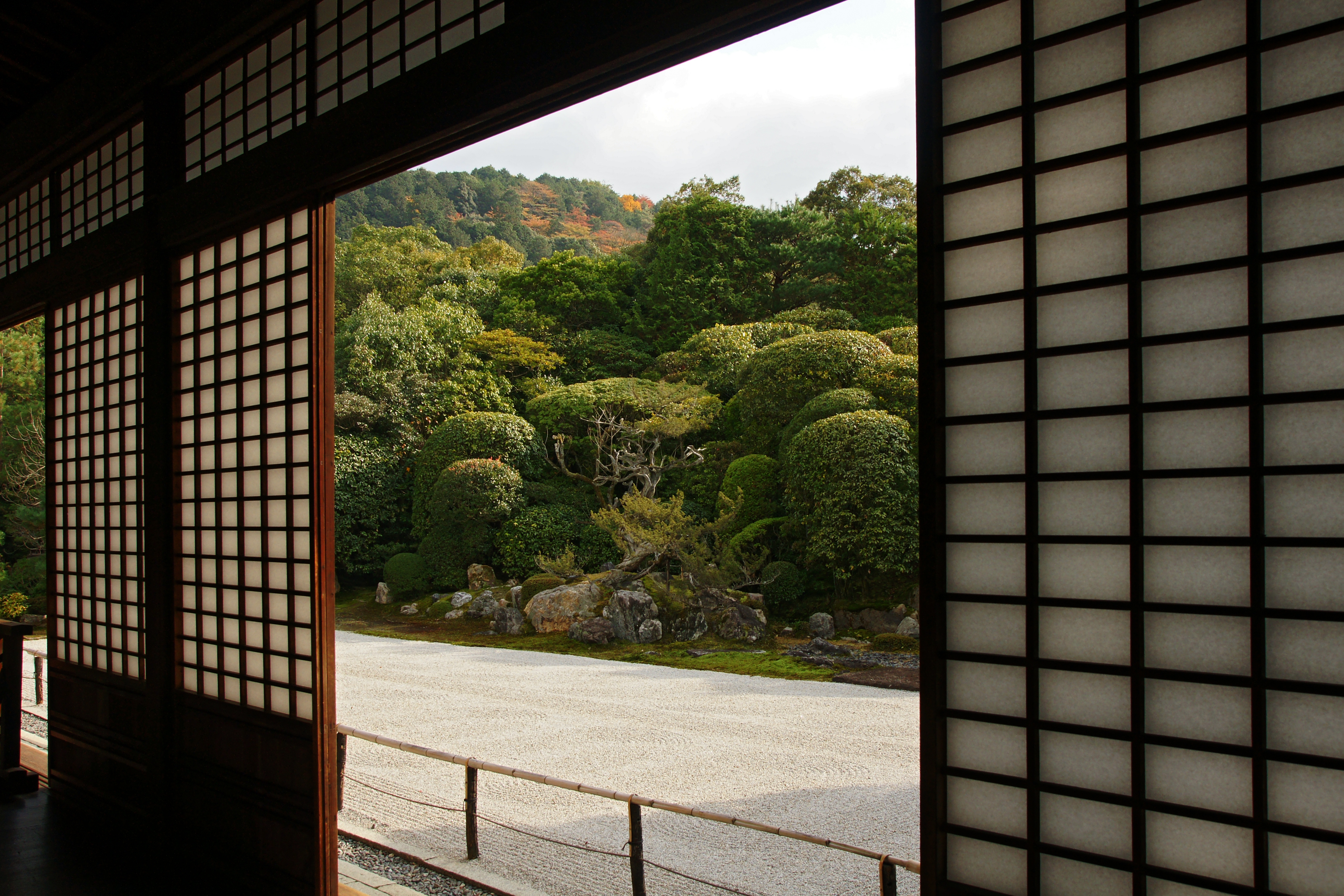 Konchi-in in Kyoto, Kyoto Prefecture, Japan